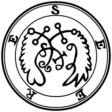 Seere seal, THE BOOK OF THE GOETIA OF SOLOMON THE KING (1904)